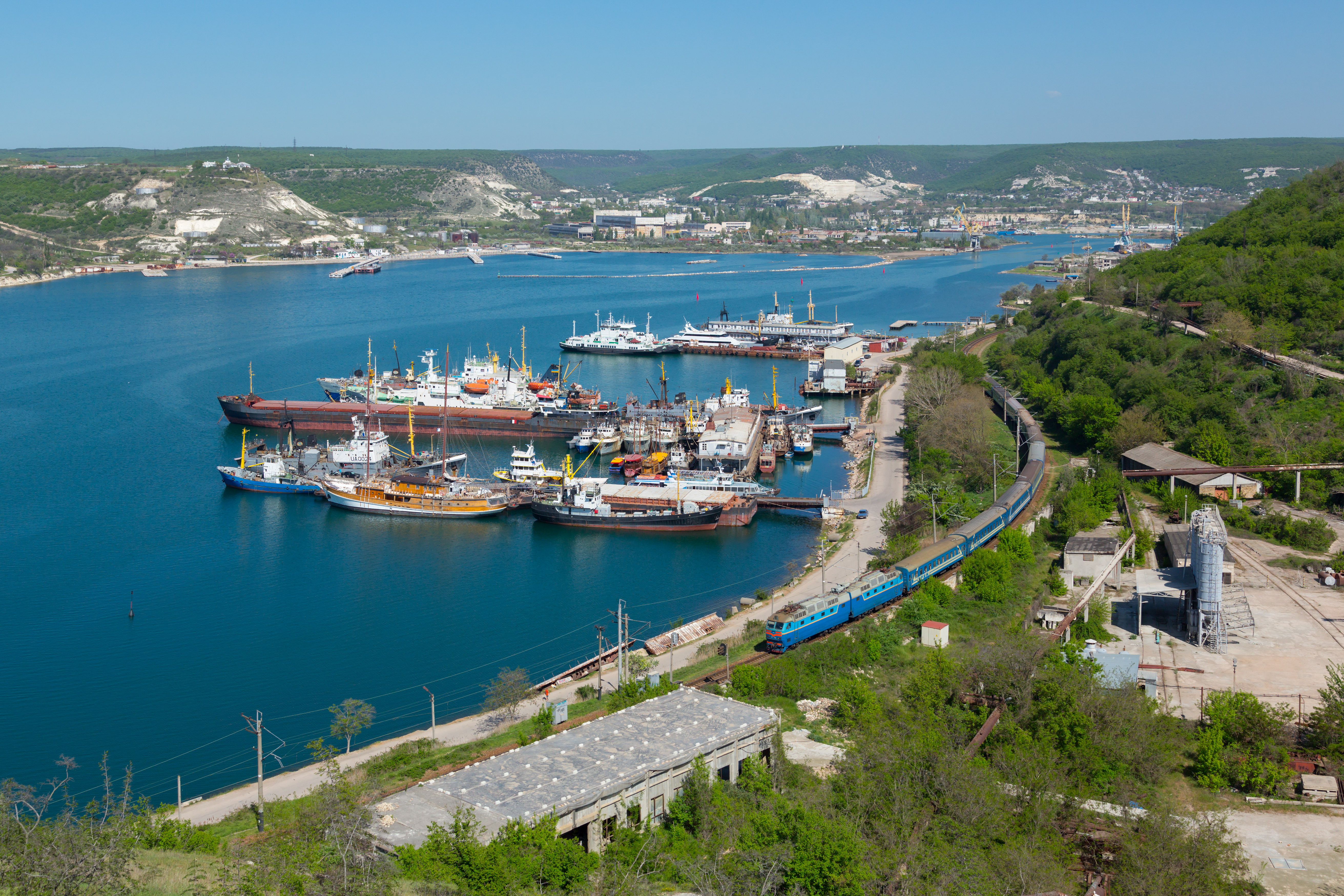 To reach Sevastopol, trains have to take a tour around the harbor area. Ukrainskije Schelesnyje Dorogi class ChS7 with train 17 from Moscow between Inkerman and Sewastopol, Ukraine.